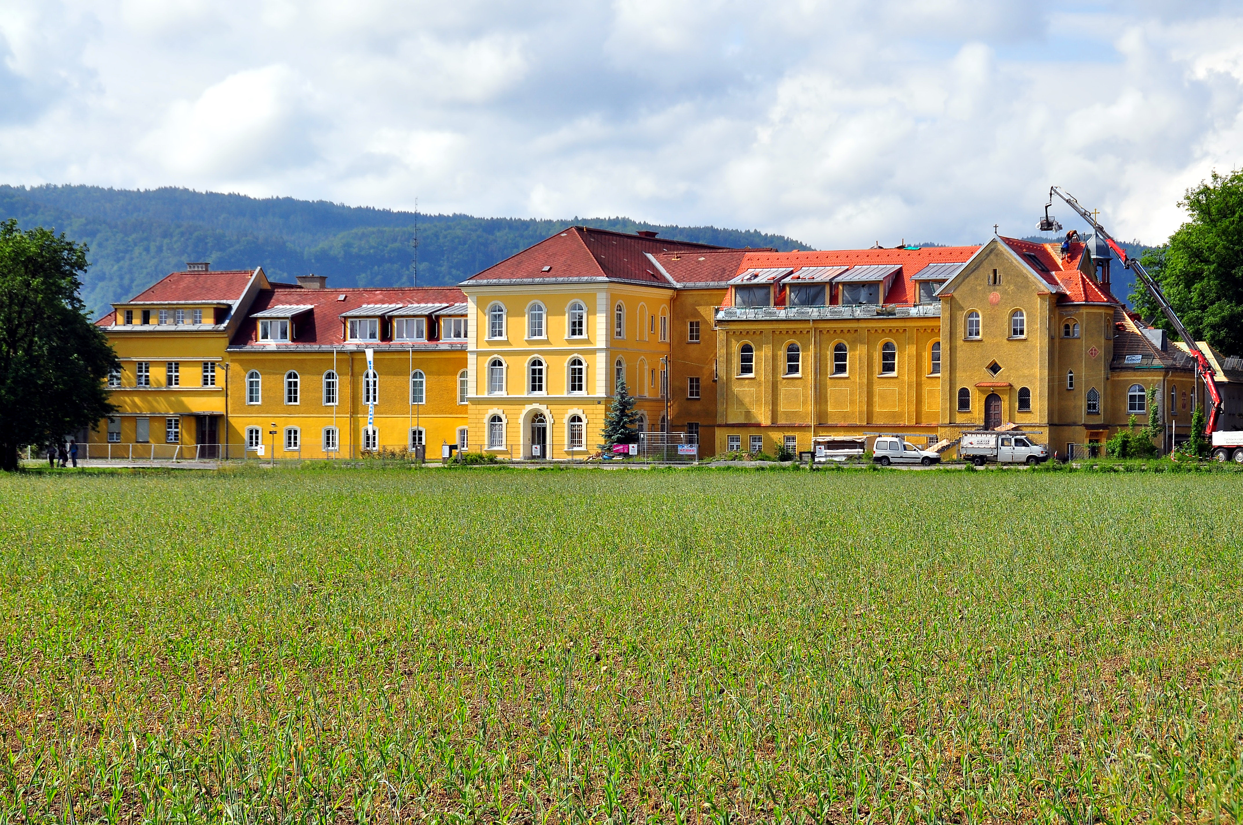 Castle and monastery “Harbach” on the Harbacher Strasse #70 in the 10th district "Sankt Peter" of Carinthian`s capital Klagenfurt on the Lake Woerth, Carinthia, Austria